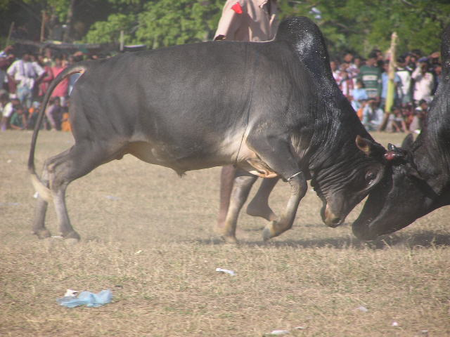 its a cow fight in Bangladesh. It is almost a lost tradition. It had been taken from Netrokona, Bangladesh.